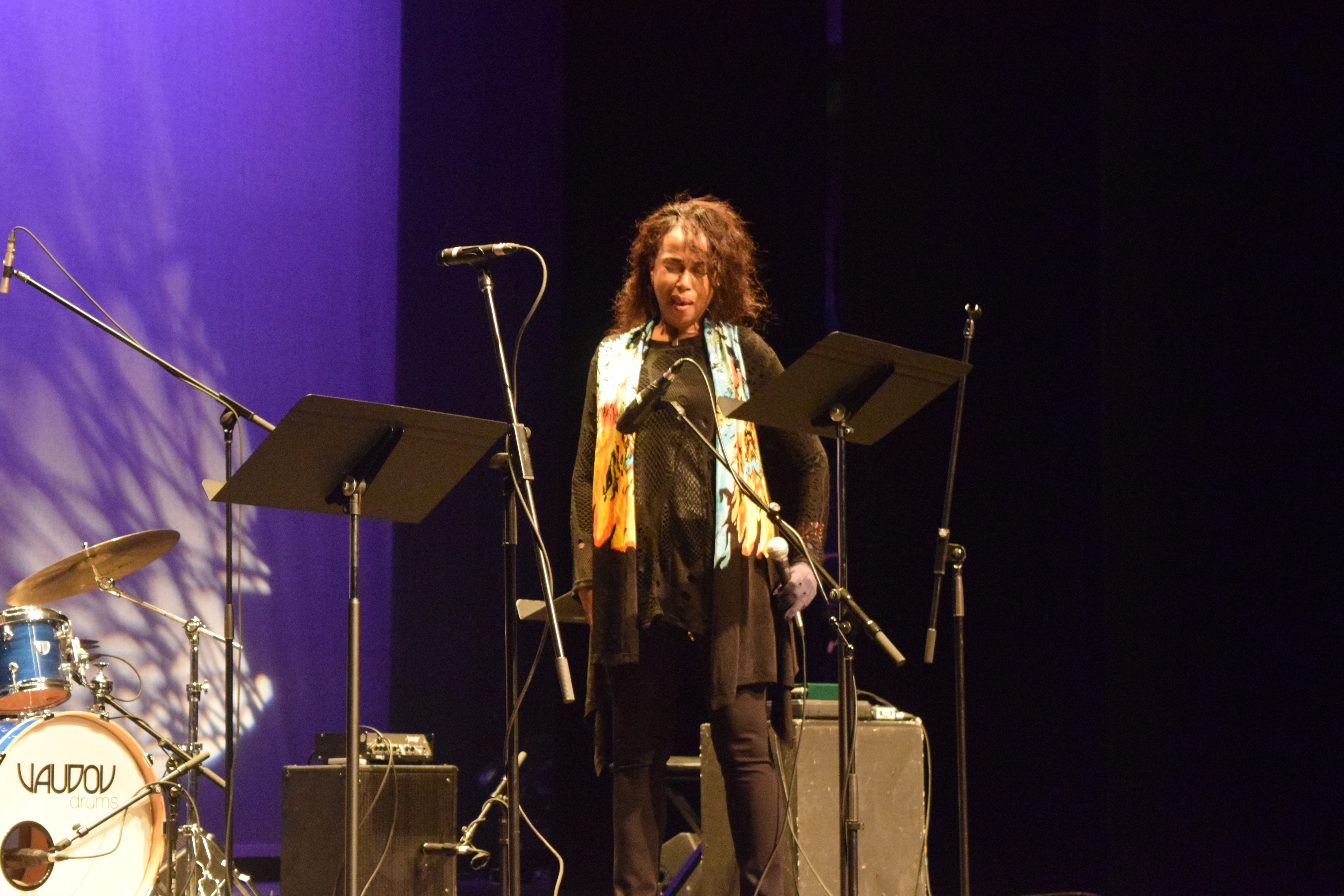 Jeri Brown performing in 2014